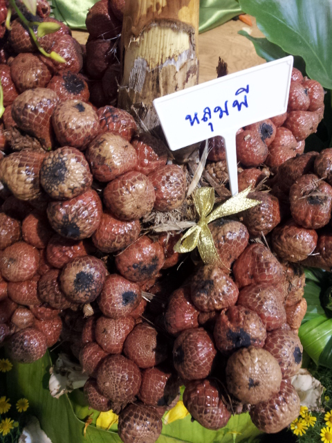 Fruit of Eleiodoxa conferta in Thailand